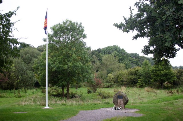 King Richard's Field; near to Shenton, Leicestershire, Great Britain